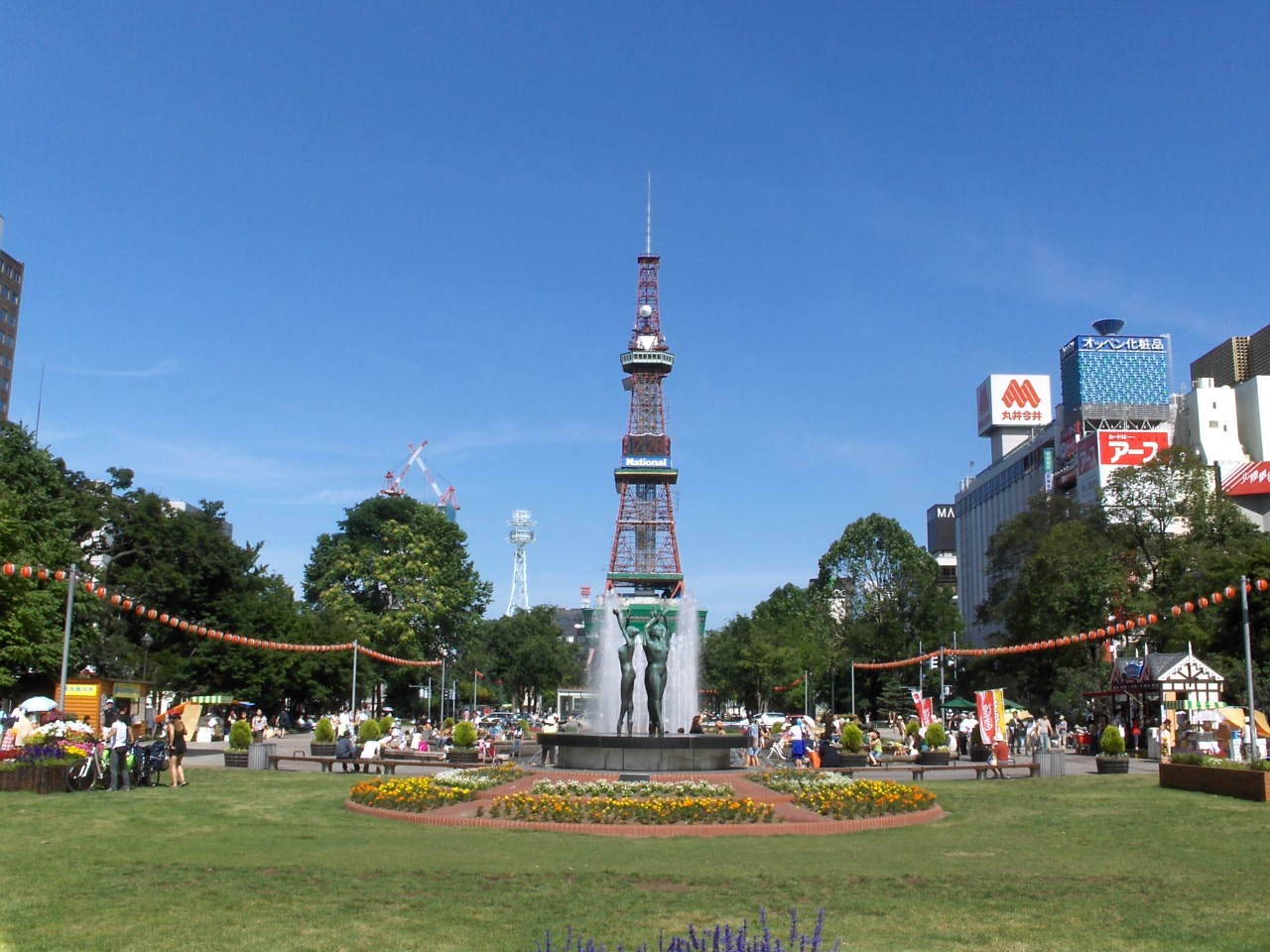 Odori Park in Sapporo, Japan. I took this pic around August 2006, under the license of the GFDL.